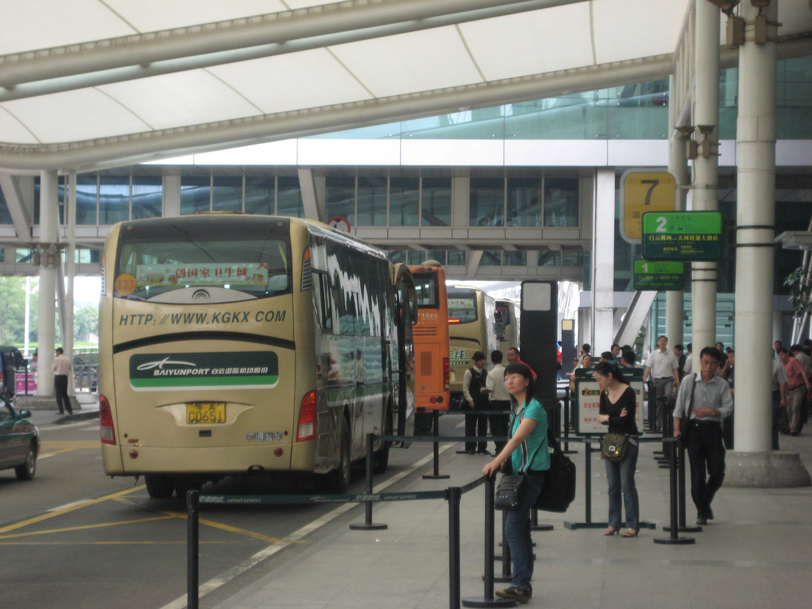 The airport bus area outside the arrivals terminal of Guangzhou Baiyun Airport.